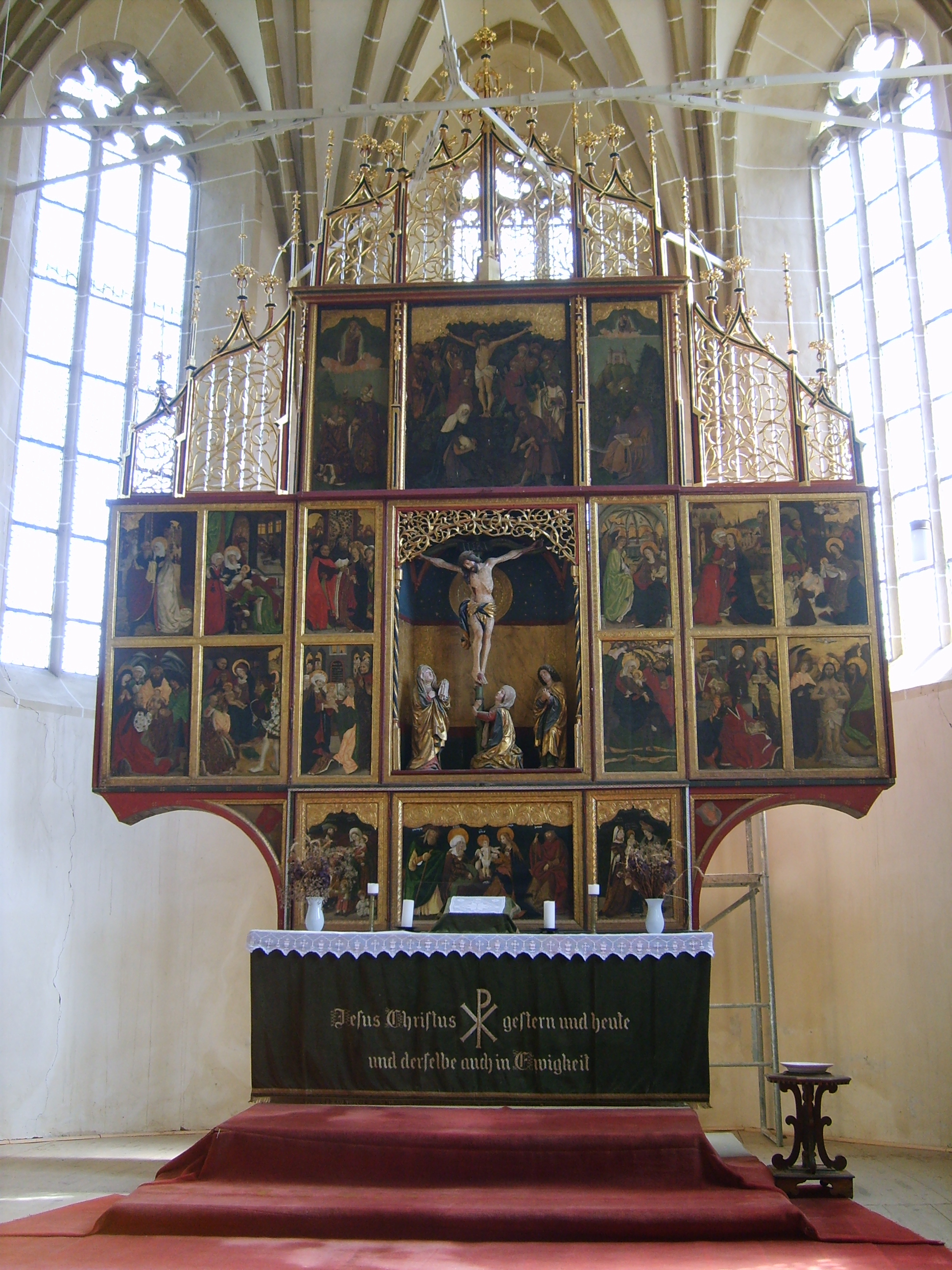 Inside the fortified church of Biertan